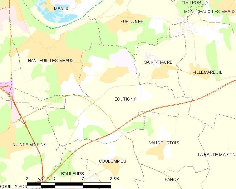 Map of French municipality Boutigny